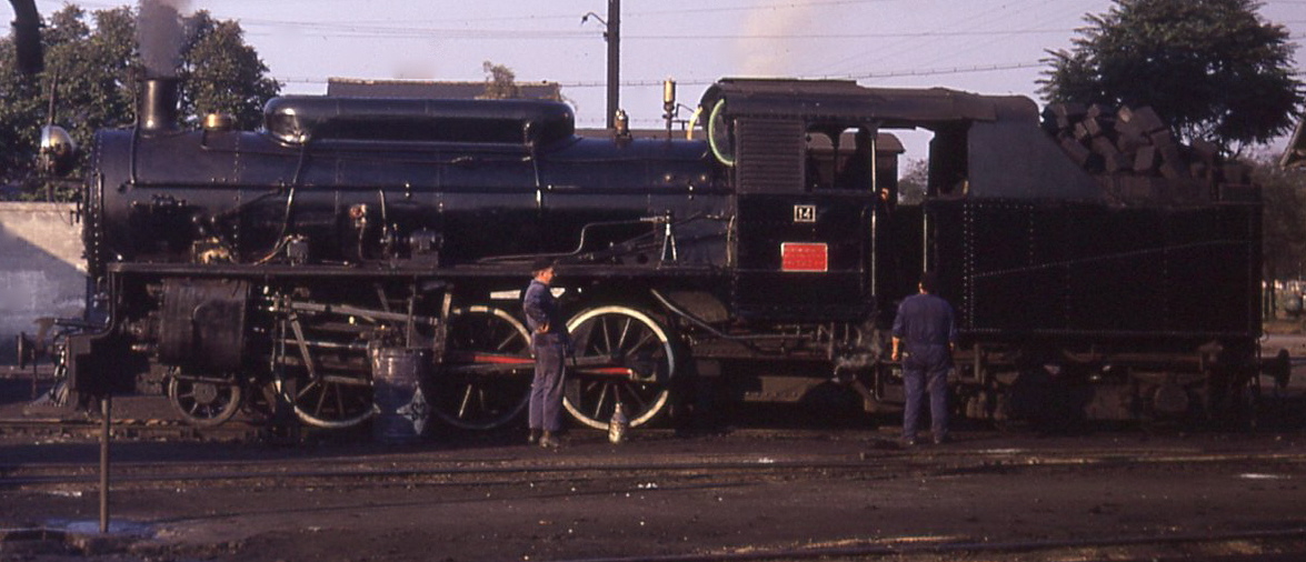 PV Engerth loco No. 14 1970